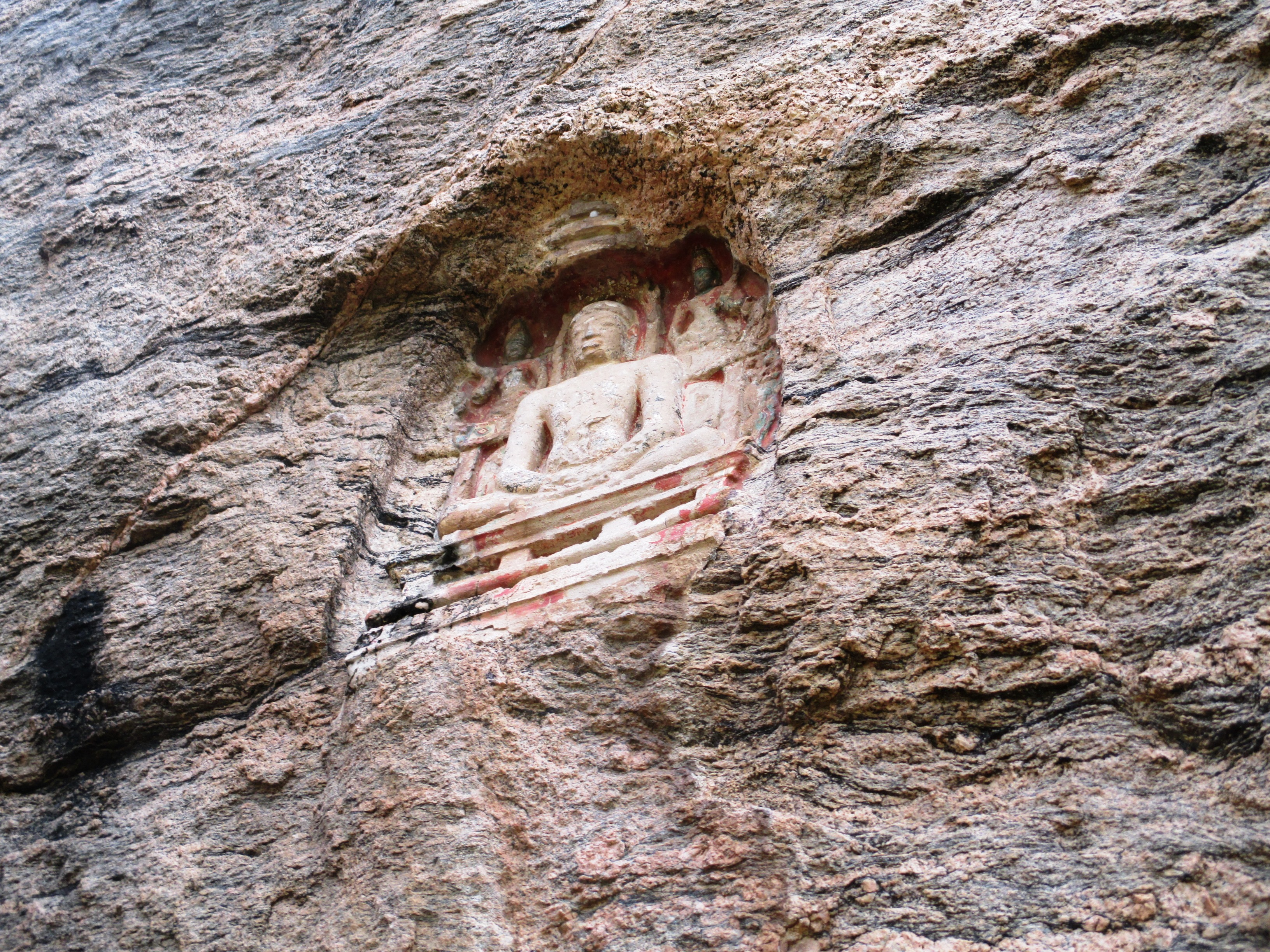 Yanmalai Jain Sculptures